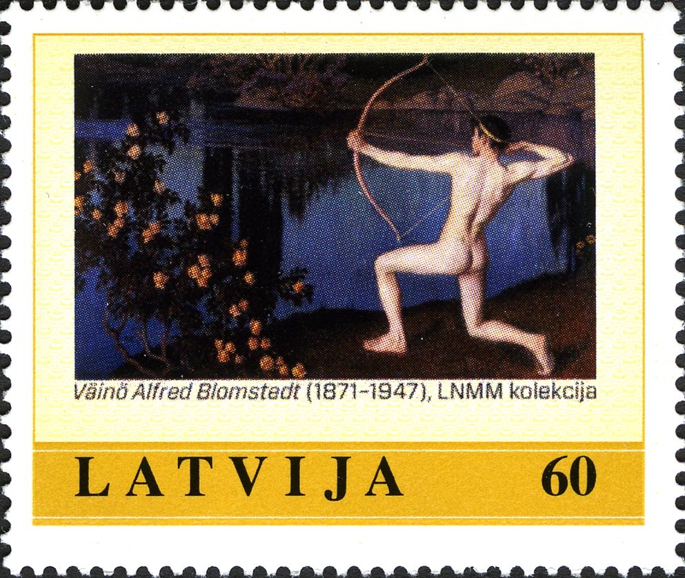 Stamps of Latvia, 2011